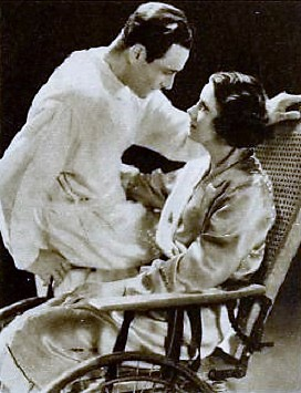 Still of Ricardo Cortez and Irene Dunne in Symphony of Six Million (1932) from The New Movie Magazine.